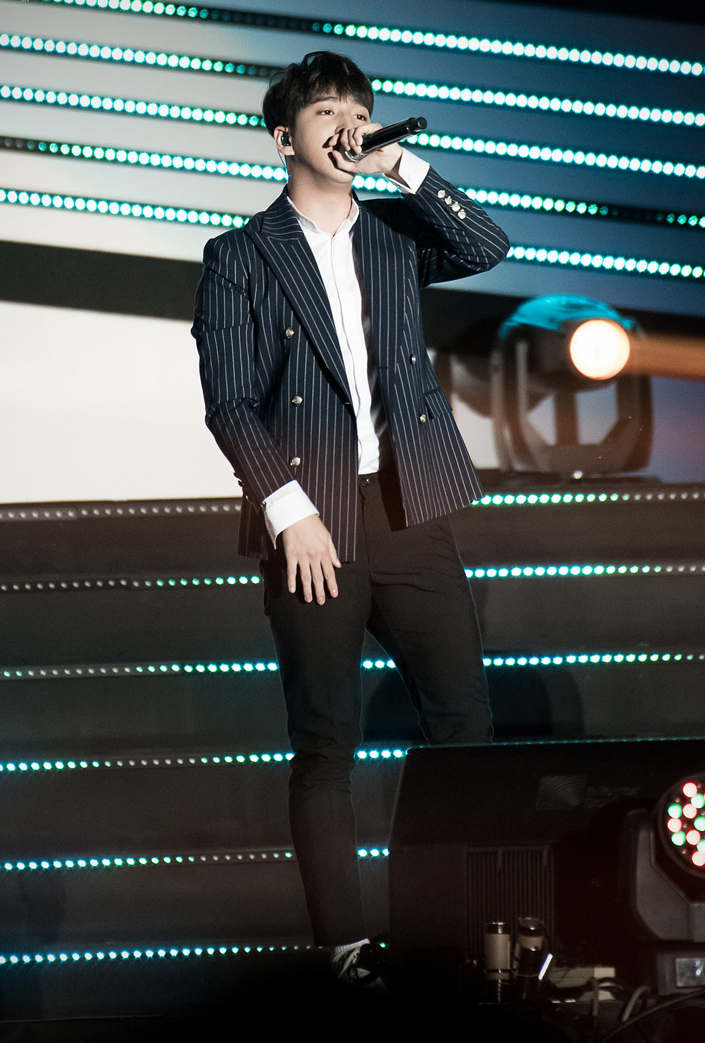 Baro at WFMF concert on September 11, 2016.